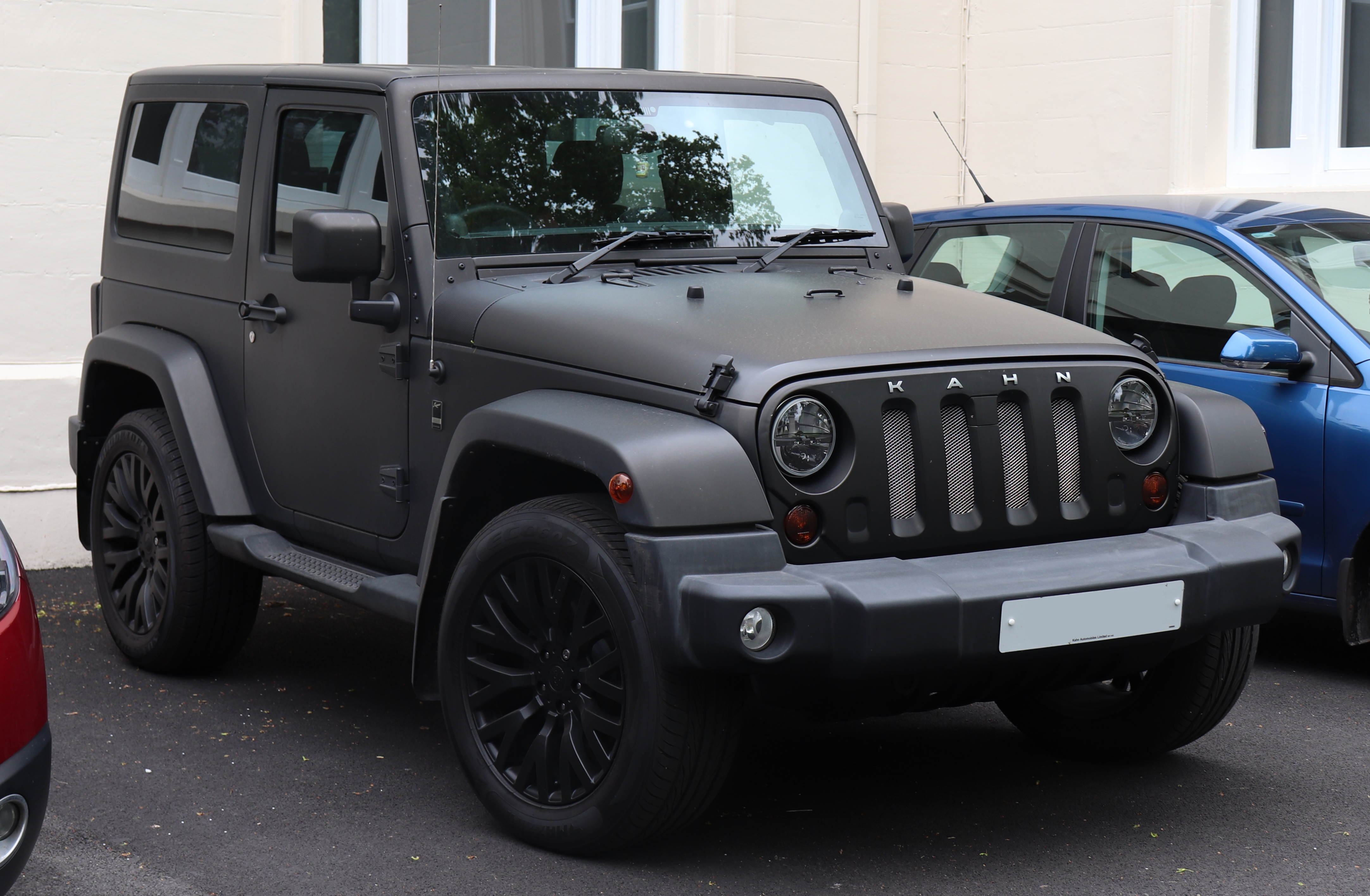 2012 Jeep Wrangler Sahara CRD 197 Automatic (Kahn Design) 2.8 Taken in Leamington Spa